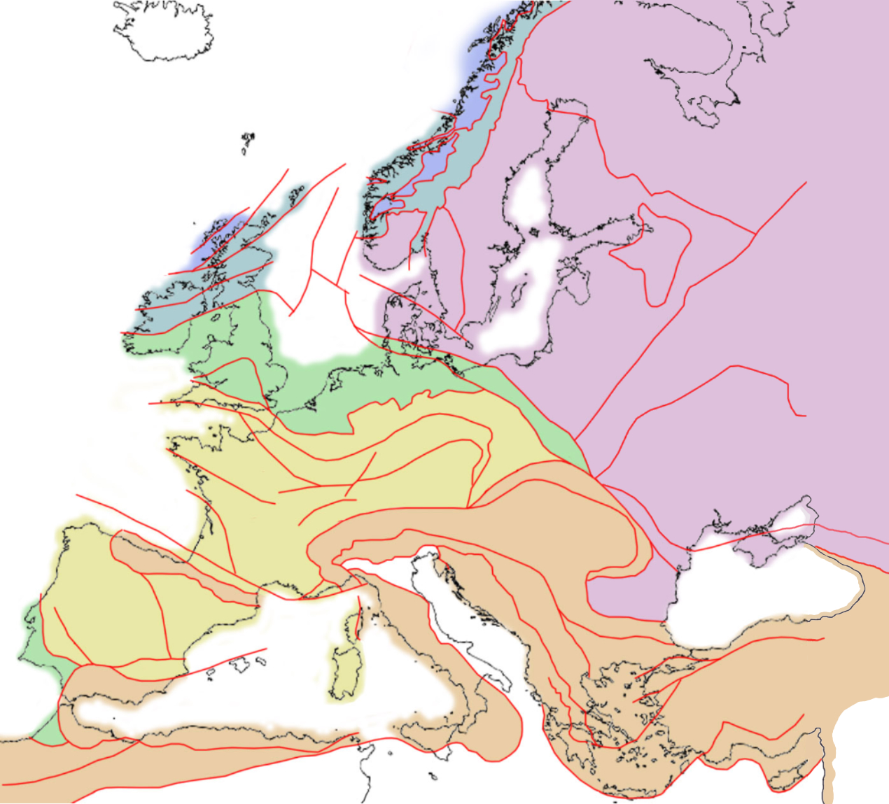 Tectonic framework map of Europe, showing the major tectonic provinces. English (en): Key Mainly Baltic Shield and East European Platform, last folded in Precambrian times Laurentian crust remnants in Northwest Europe, last folded during Caledonian Orogeny (Early Paleozoic) Baltic crust folded during Caledonian Orogeny Avalonian crust, last folded during Caledonian Orogeny Crustal blocks accreted and last folded during Variscan Orogeny (Late Paleozoic) Crustal blocks accreted and last folded during Alpidic Orogeny (Late Mesozoic and Cenozoic)